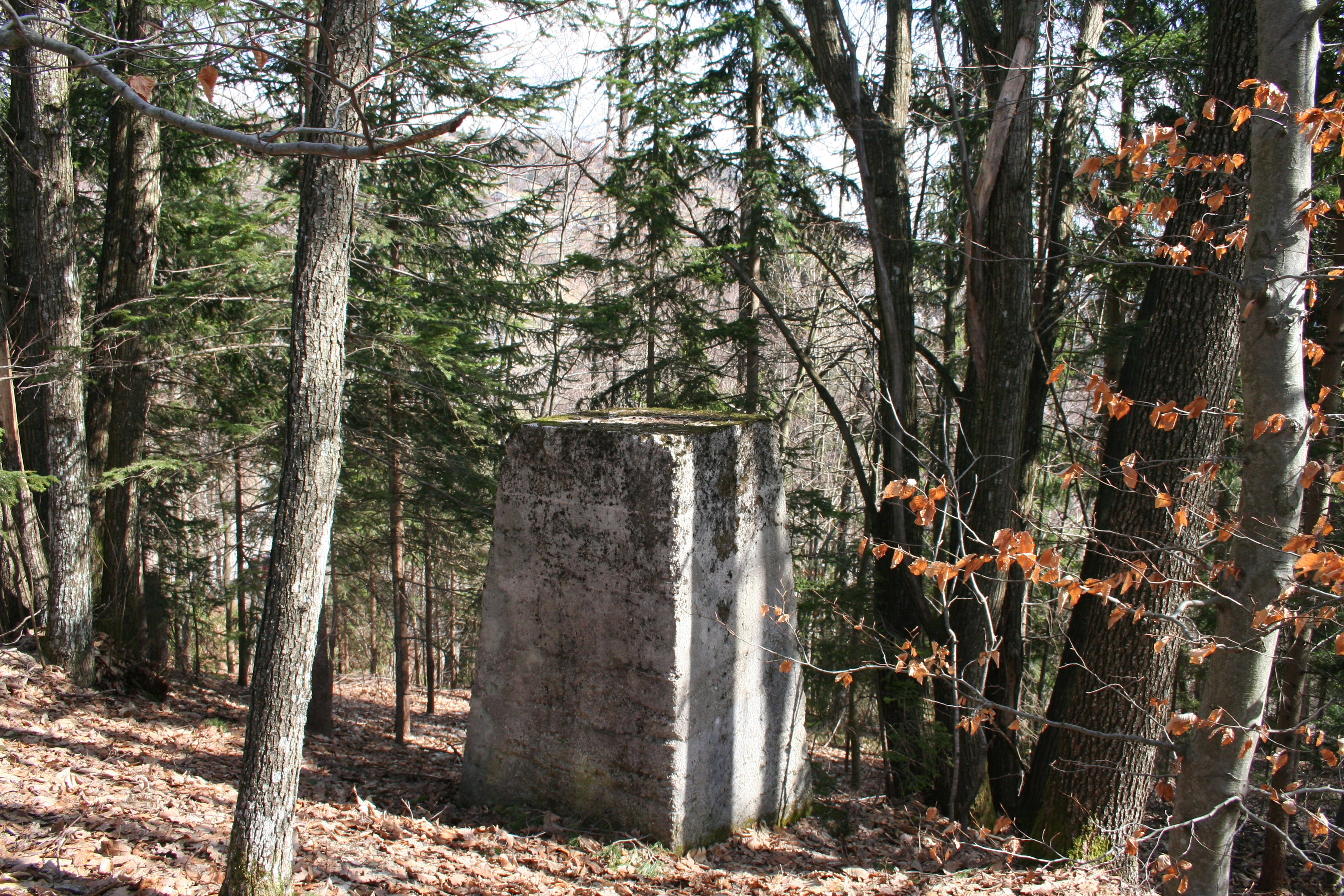 The remains of the base of the German watch tower. The four pedestals high up to 2 meters, were carriers of the wooden structure as high as 20 meters.